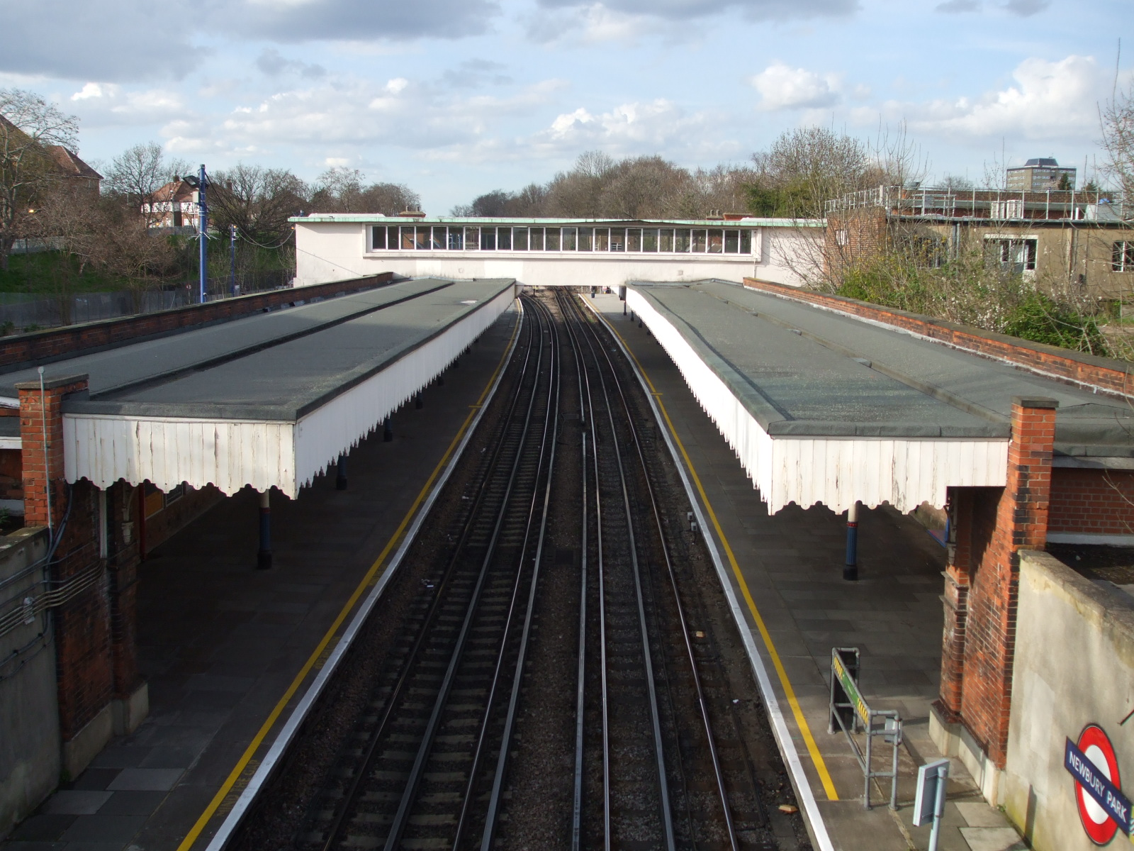 Newbury Park tube station looking north from the A12 Eastern Avenue road bridge